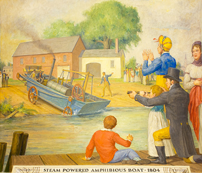 Depiction of the Oruktor Amphibolos by Allyn Cox in the US Capitol, 1973-1974